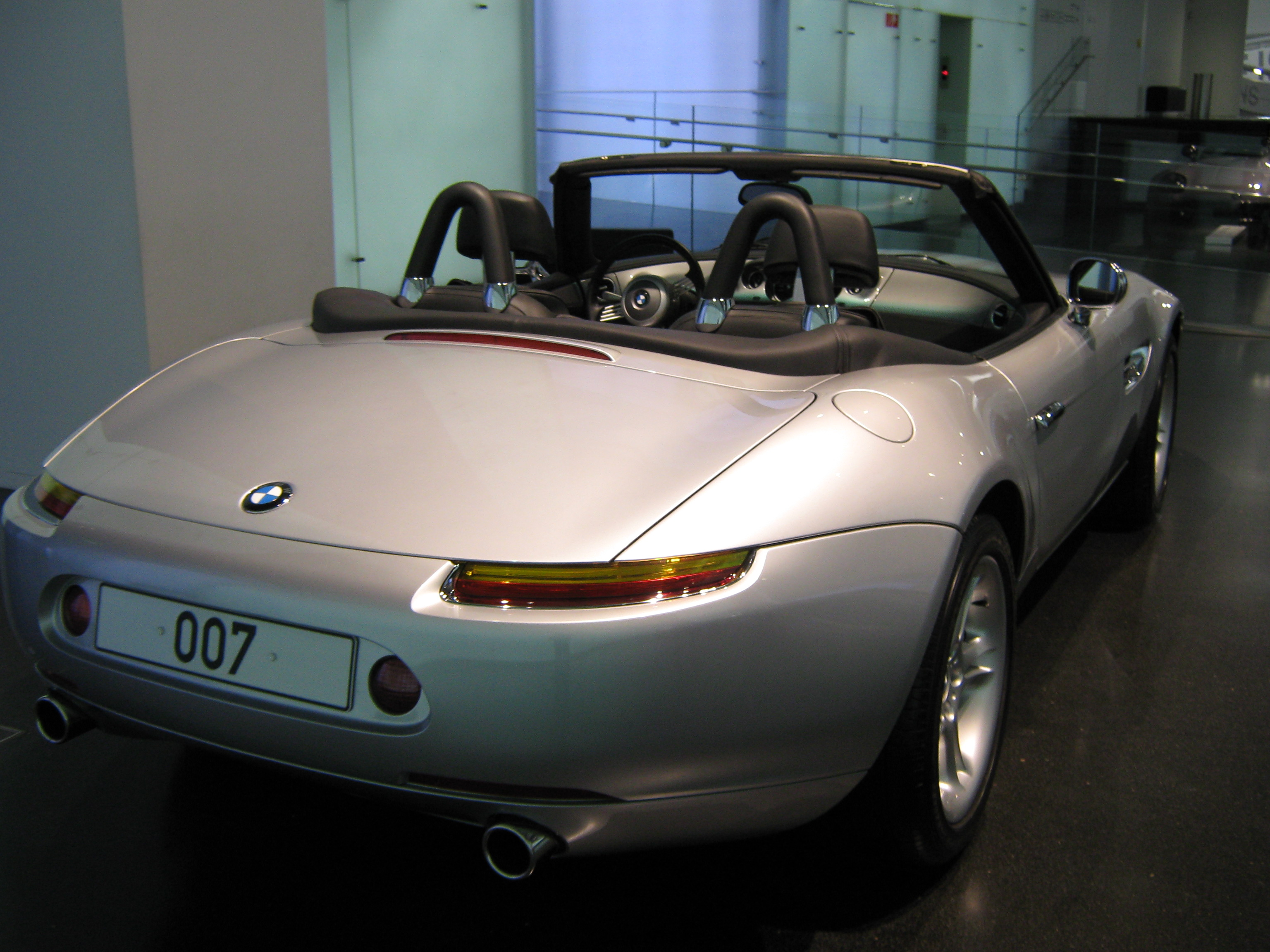 James Bond BMW Z8 (from The World is not enough). From BMW Museum, Munchen, Germany.